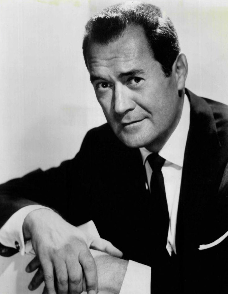 Photo of Frank Lovejoy from an appearance on the television program The U.S. Steel Hour.